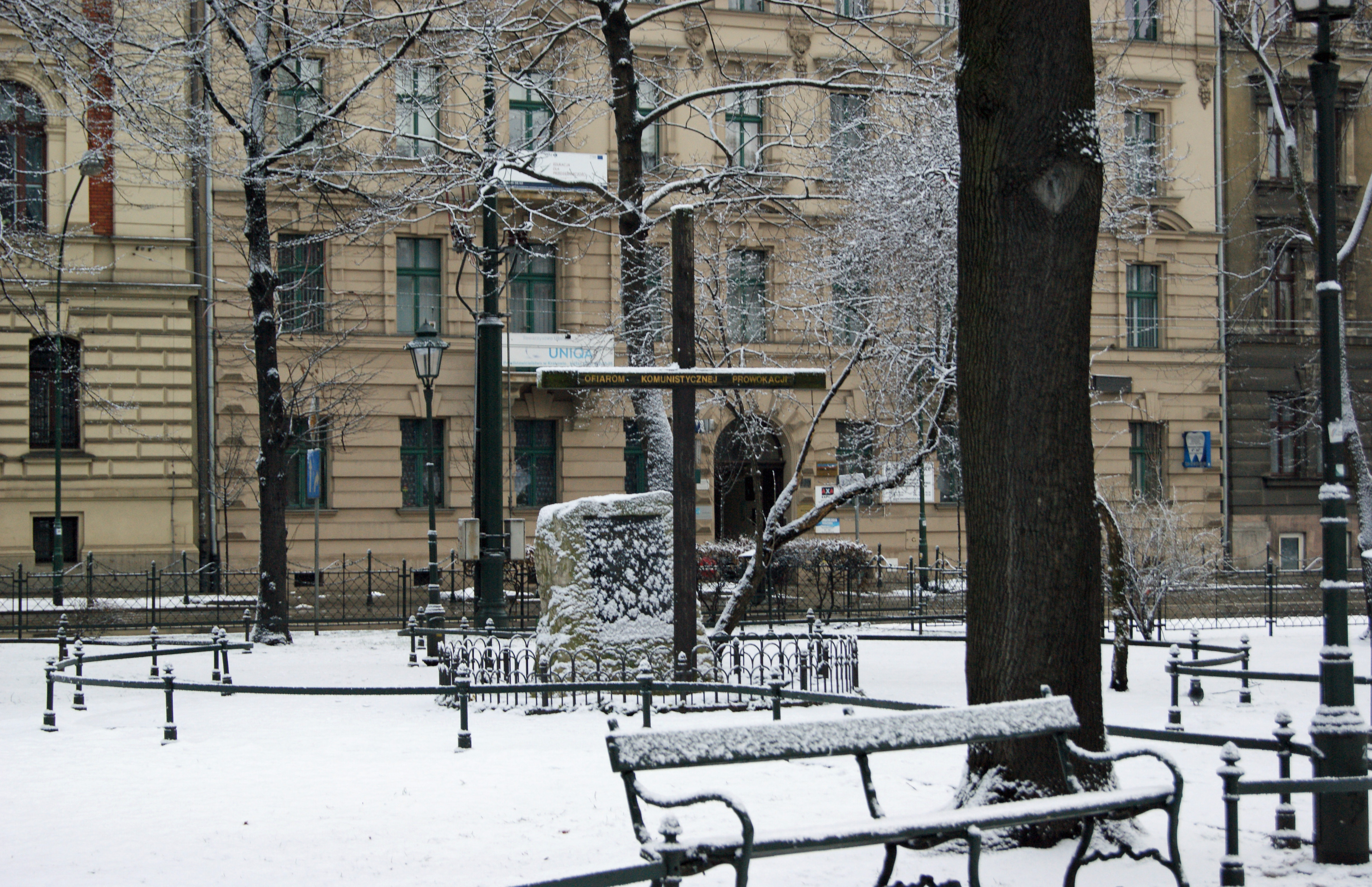 Monument to the Fallen Semperit’s Workers of 1936, Planty Park, Old Town, Krakow, Poland